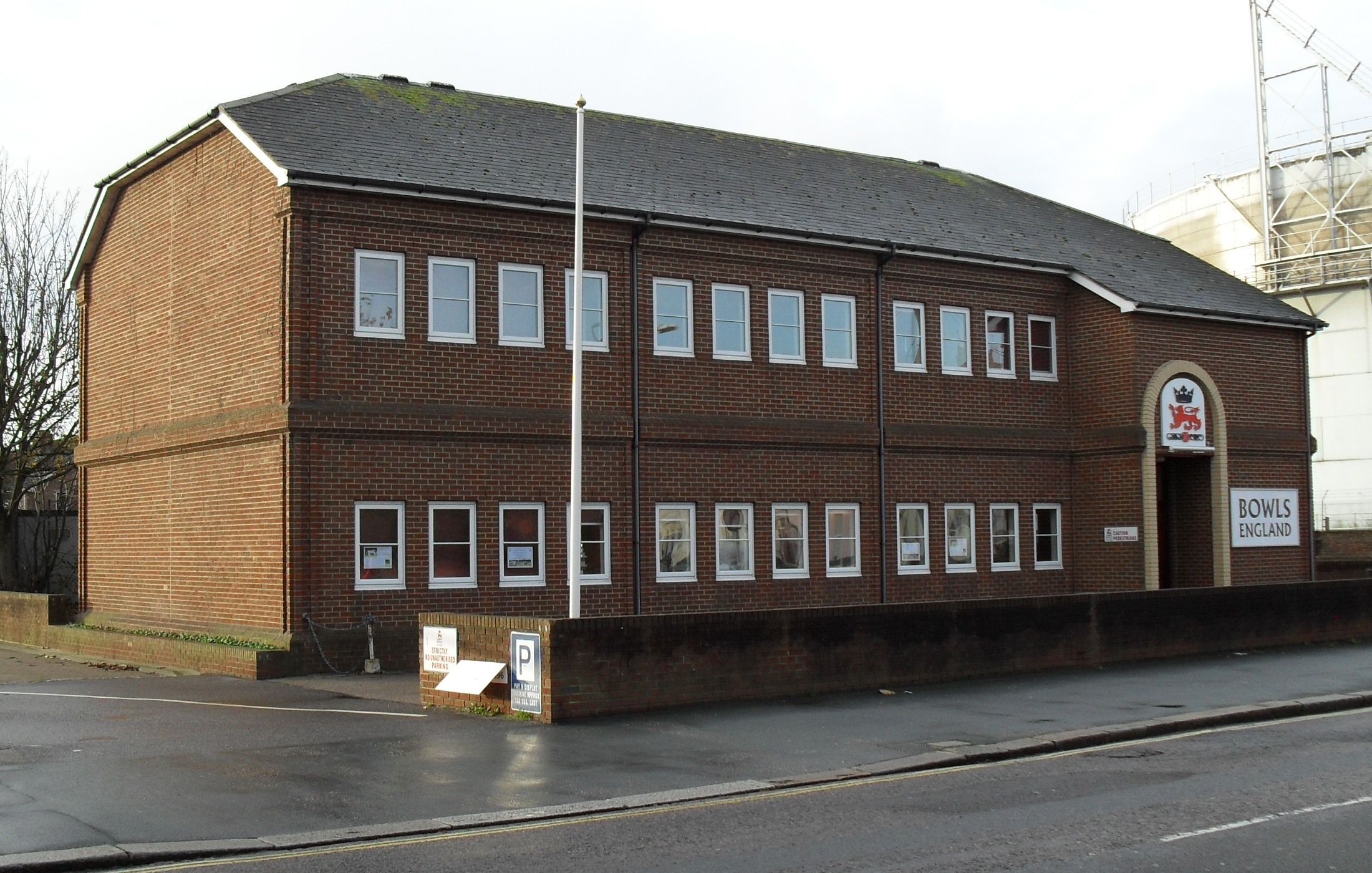 The headquarters of Bowls England (formerly the English Bowls Association), Worthing, West Sussex, England. Built in 1987.